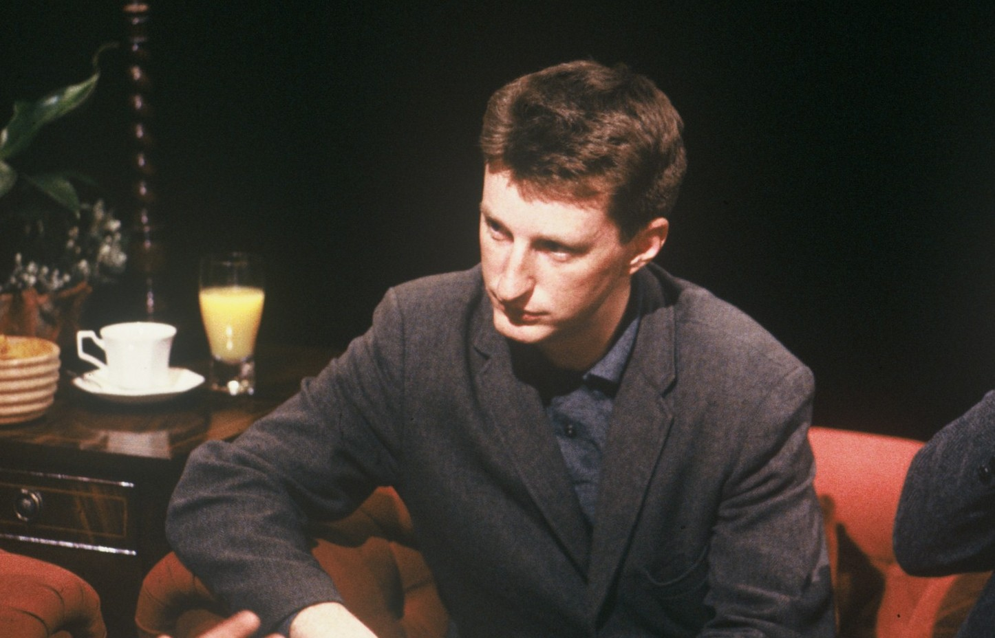 Billy Bragg on TV discussion programme After Dark on 12 June 1987, (c) Open Media Ltd 1987